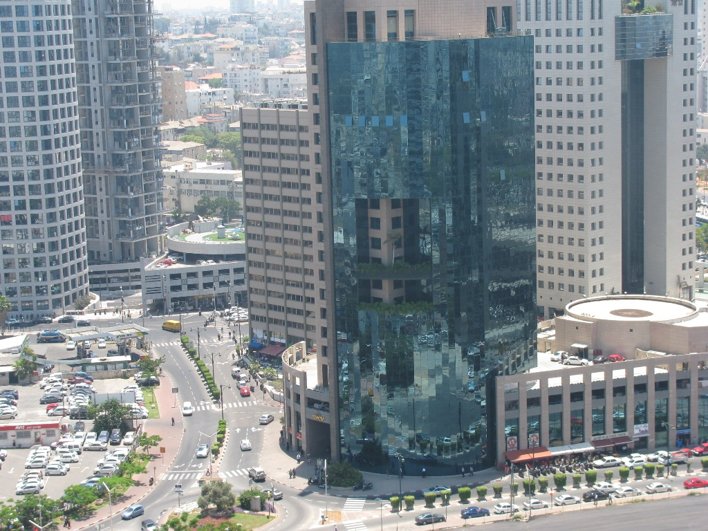 Ramat-Gan City, Architecture of Israel